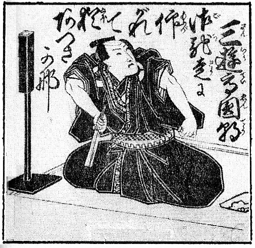 San’yūtei Enchō, entertainer in Japan, 1839–1900